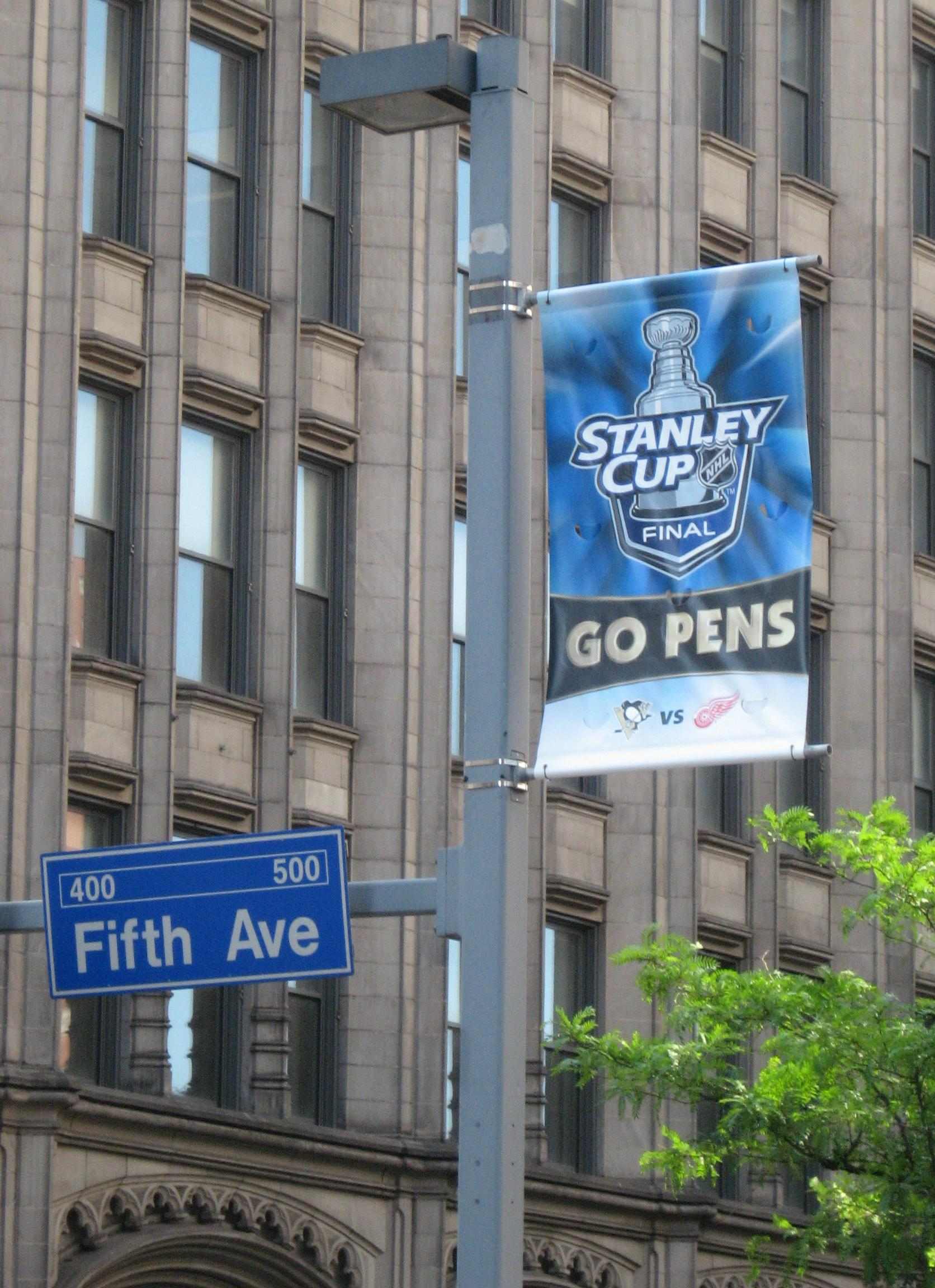 Pittsburgh Penguins banner for the 2008 Stanley Cup Final.40°26′21.8″N 79°59′48.9″W / 40.439389°N 79.996917°W